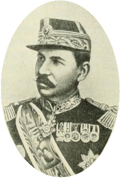 General Kosta Protić, Prime Minister and Regent of Serbia